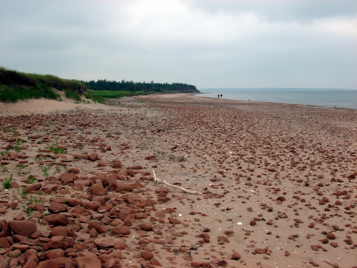 Red sand beach in Prince Edward Island National Park, Canada